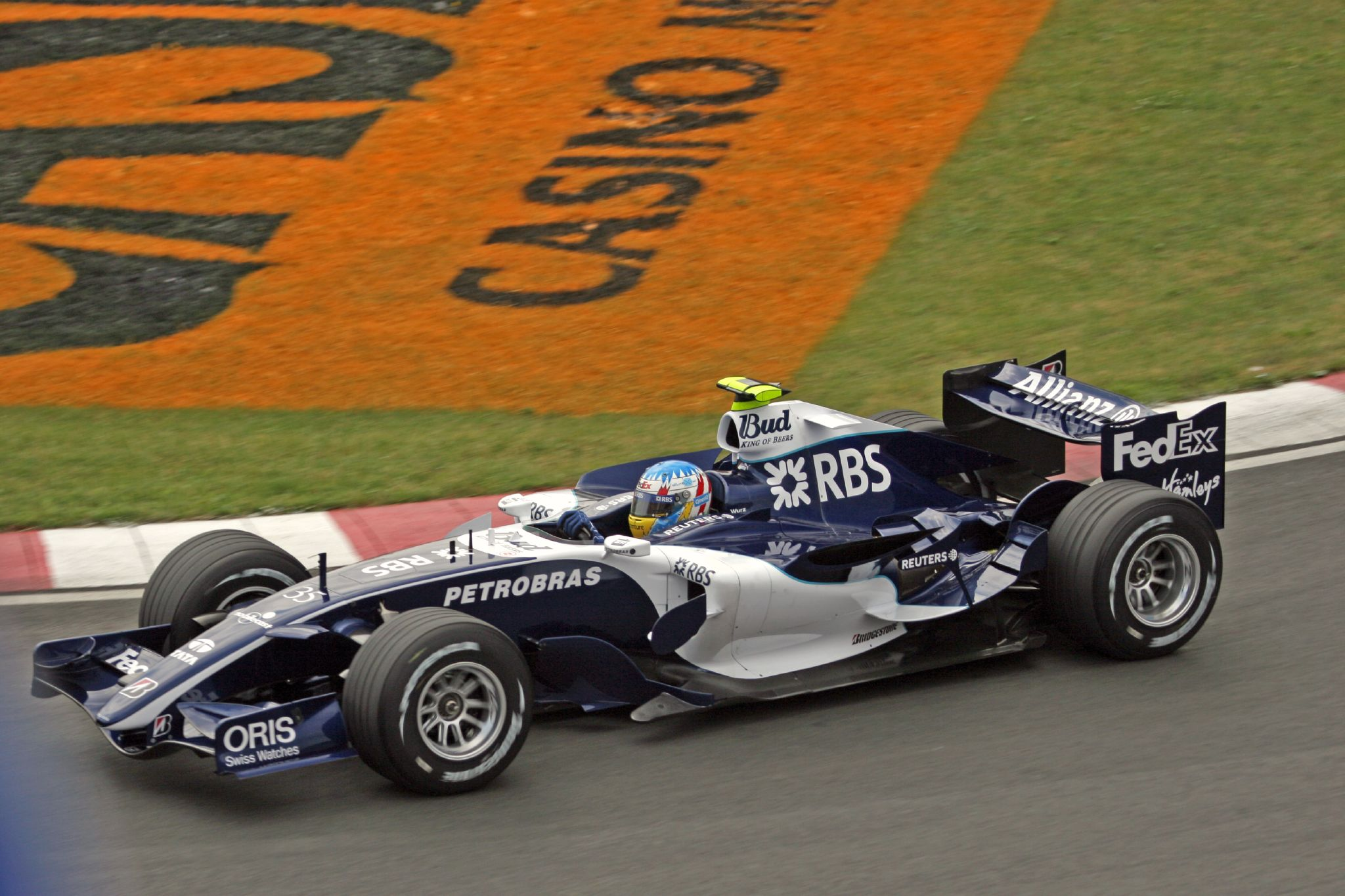 Alexander Wurz driving for Williams at the 2006 Canadian Grand Prix.